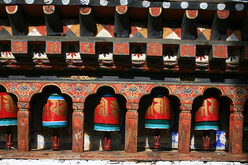 Prayer wheels in Kyichu Lhakhang Temple